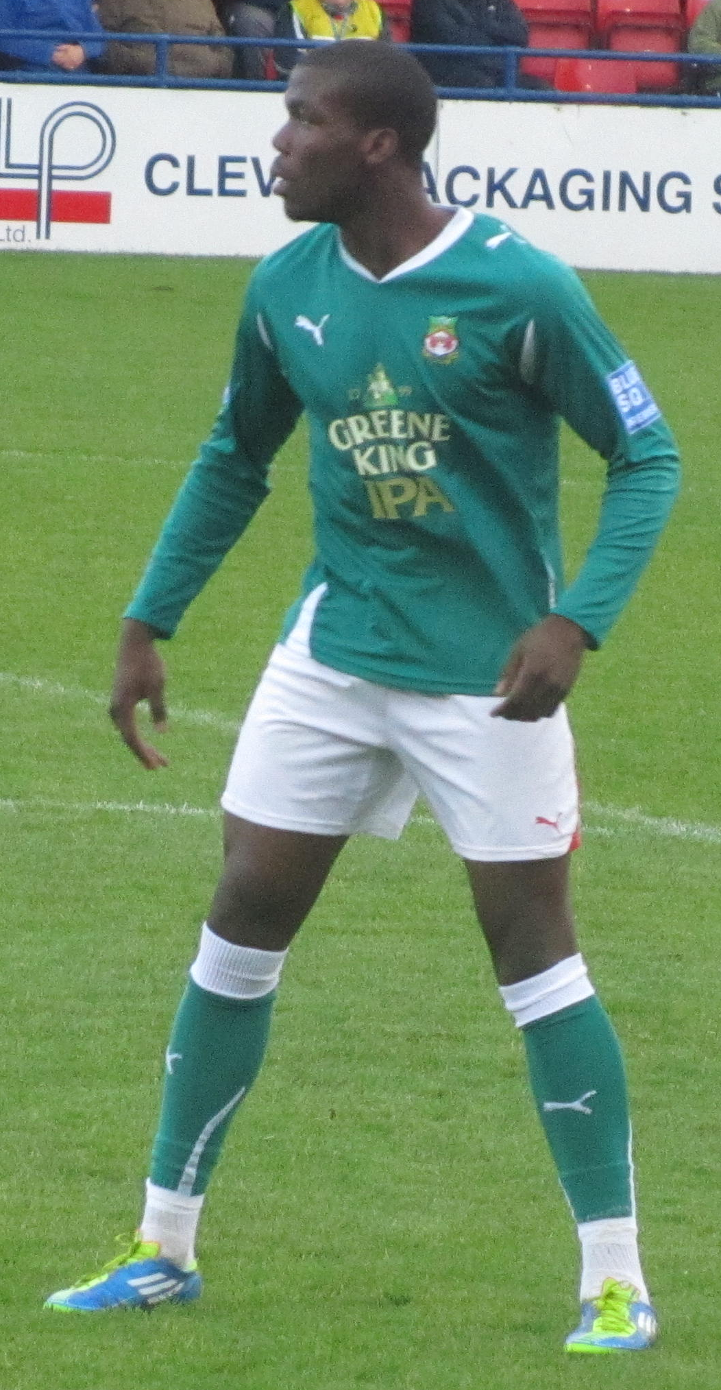 Mathias Pogba